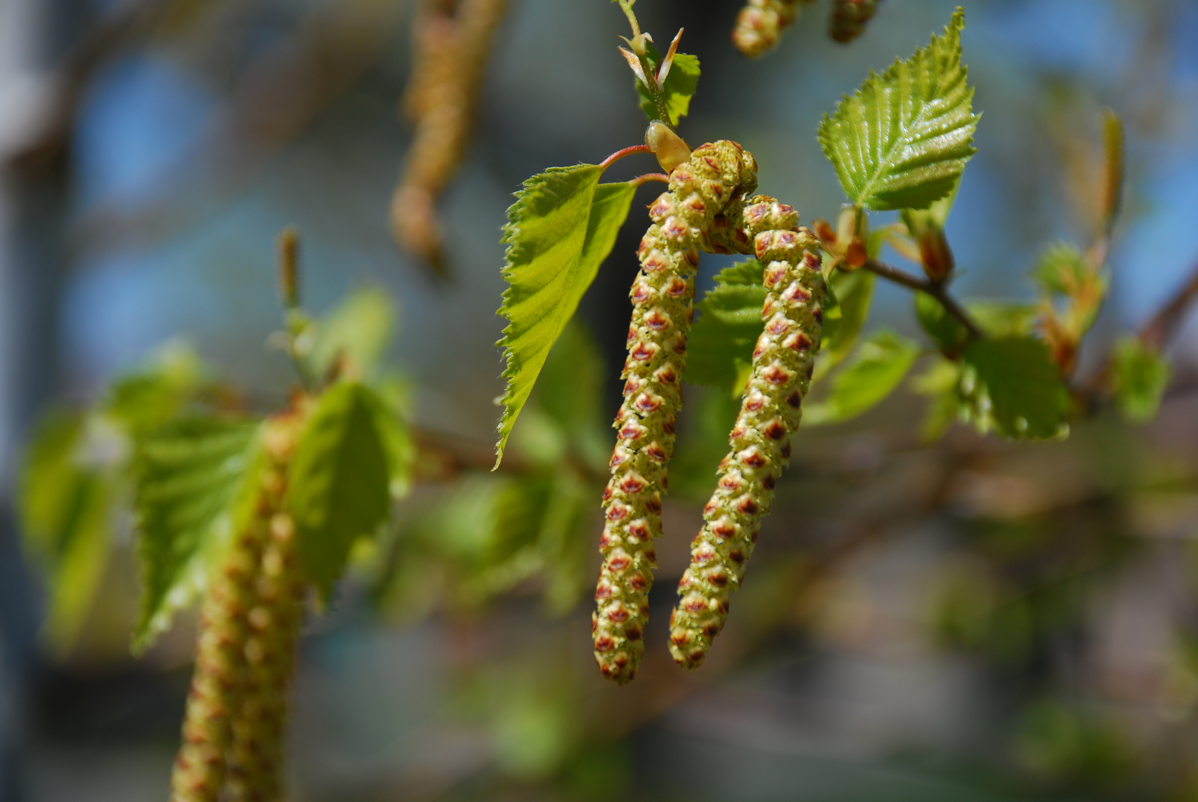 Inflorescence of Betula pendula (no seed visible!)